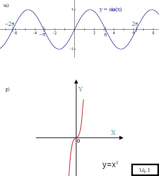 function